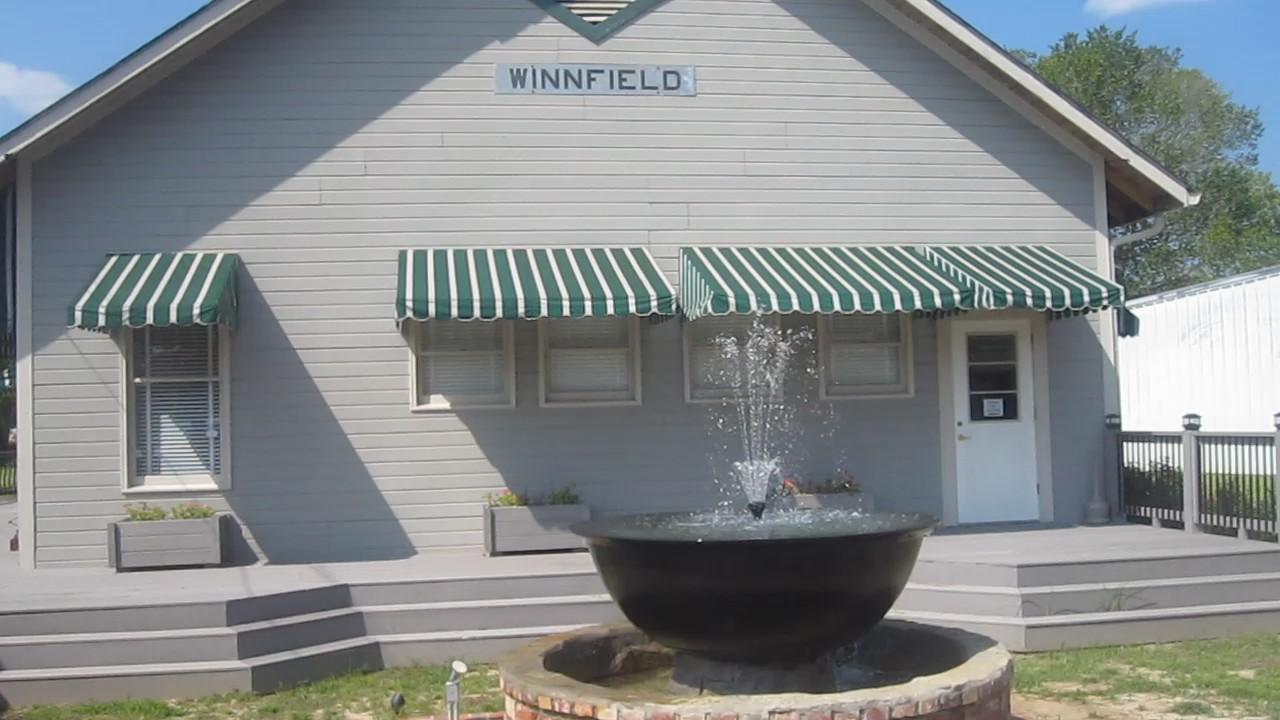 Former depot in Winnfield, LA. houses Louisiana Political Museum and Hall of Fame